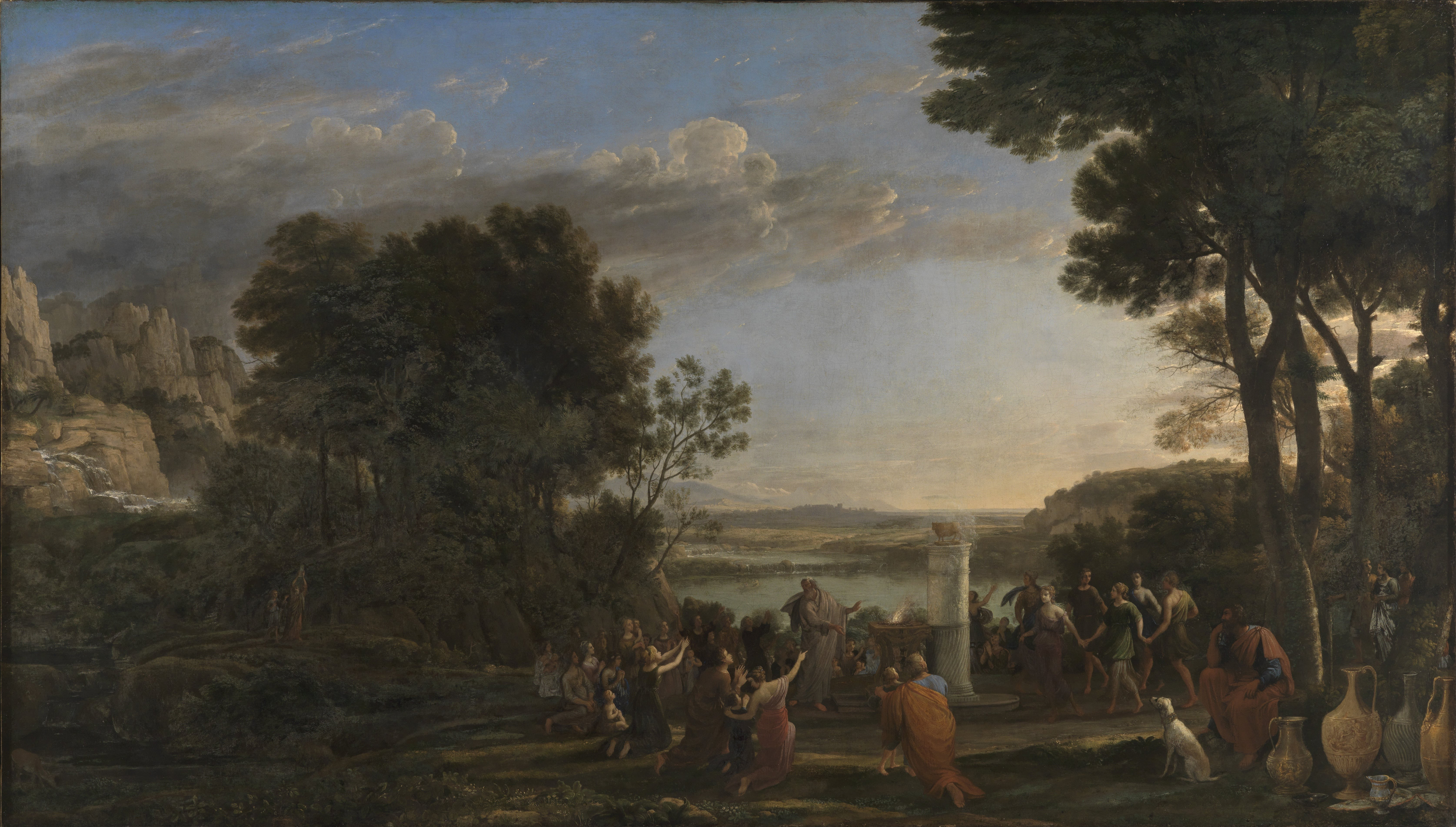 Worship of the Golden Calf - Claude Gellée, called Le Lorrain - Google Cultural Institute. Staatliche Kunsthalle Karlsruhe. Oil on canvas. 248 cm x 147 cm